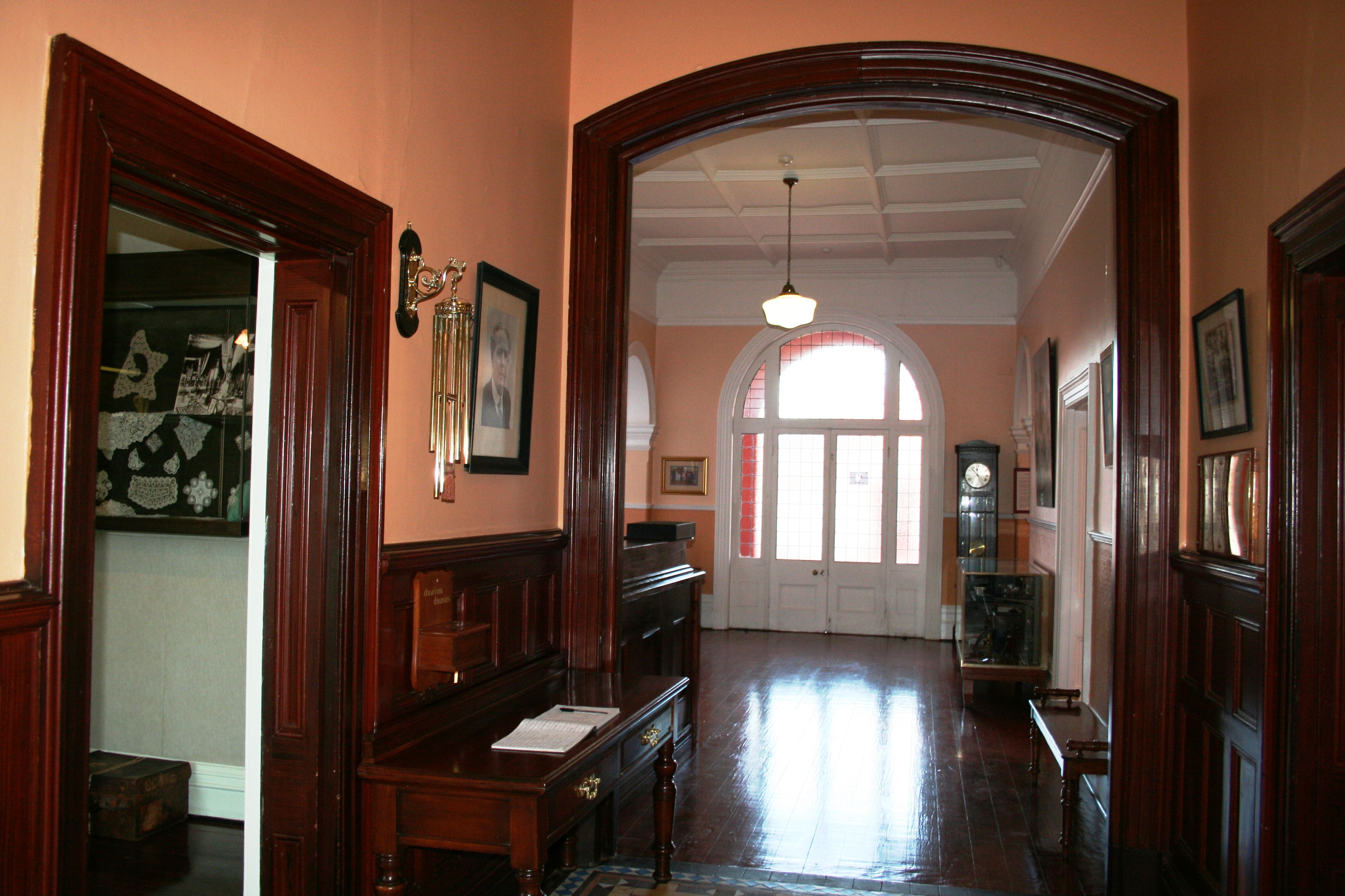 This media shows a South African Protected Site with SAHRA file reference 9/2/049/0023.